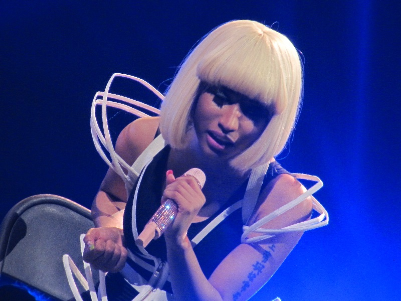 Nicki Minaj en el FFT.